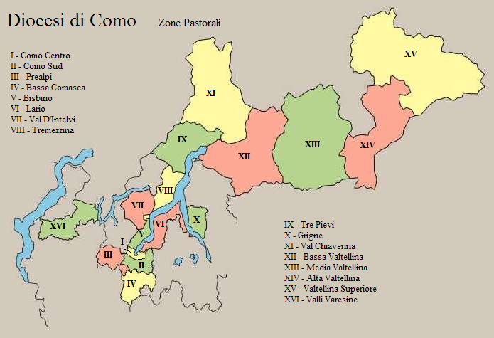 Map of Diocese of Como